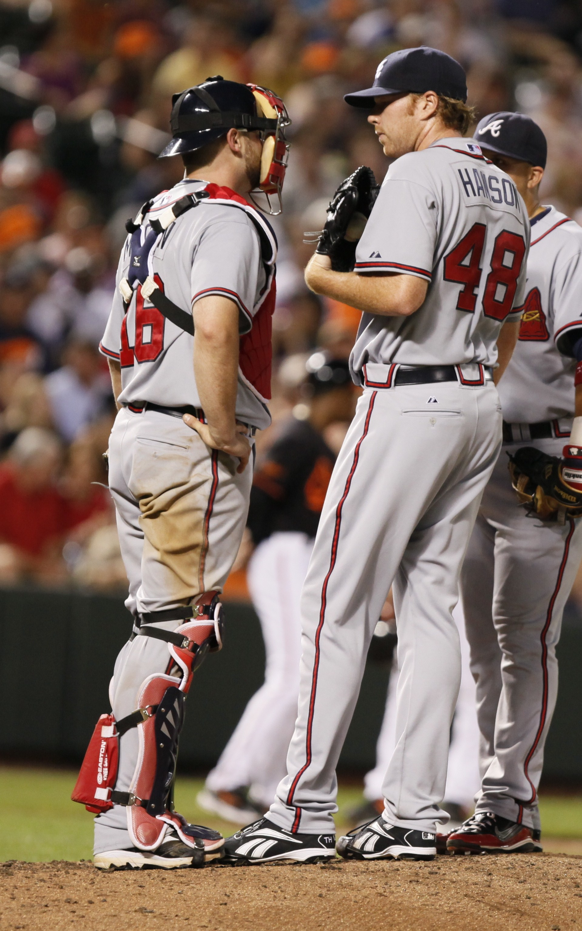 Brian McCann (left) and Tommy Hanson